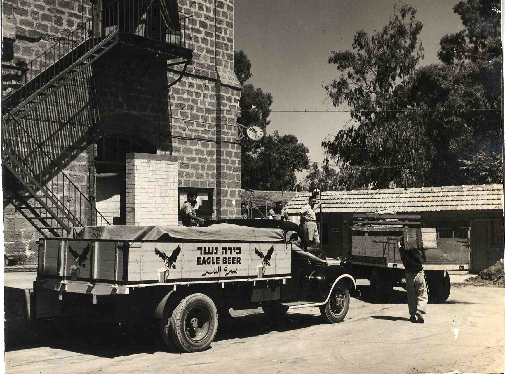 Eagle beer Factory in Rishon le zion, early 1940s.